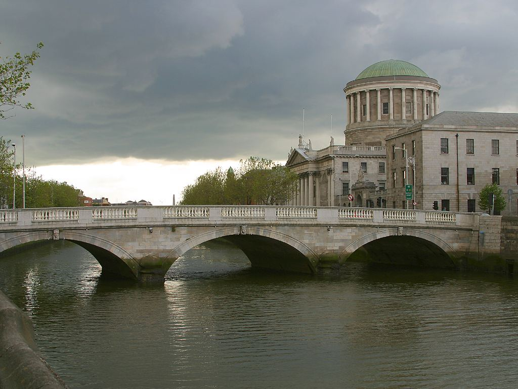 Dublin, Capital da Irlanda. Four Courts and the Liffy river in Dublin.